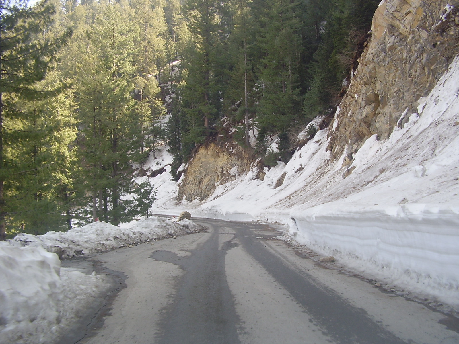 Road to Nathiagali and Donga Gali from Murree